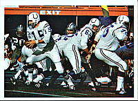 A football card from the 1986 Jeno's Pizza NFL football card stickers set of Baltimore Colts quarterback Earl Morrall during Super Bowl V. The card is numbered #32 in the set. The back of the card reads: COLTS ON THE WAY TO A SUPER BOWL RING Colts quarterback Earl Morrall spins to hand the ball deep in Dallas territory during Super Bowl V, as he and his teammates make up for past frustrations by beating the Cowboys 16-13. In the closest Super Bowl finish of all, the Colts claimed the world championship when Jim O'Brien kicked a game-winning, 32-yard field goal with five seconds left.